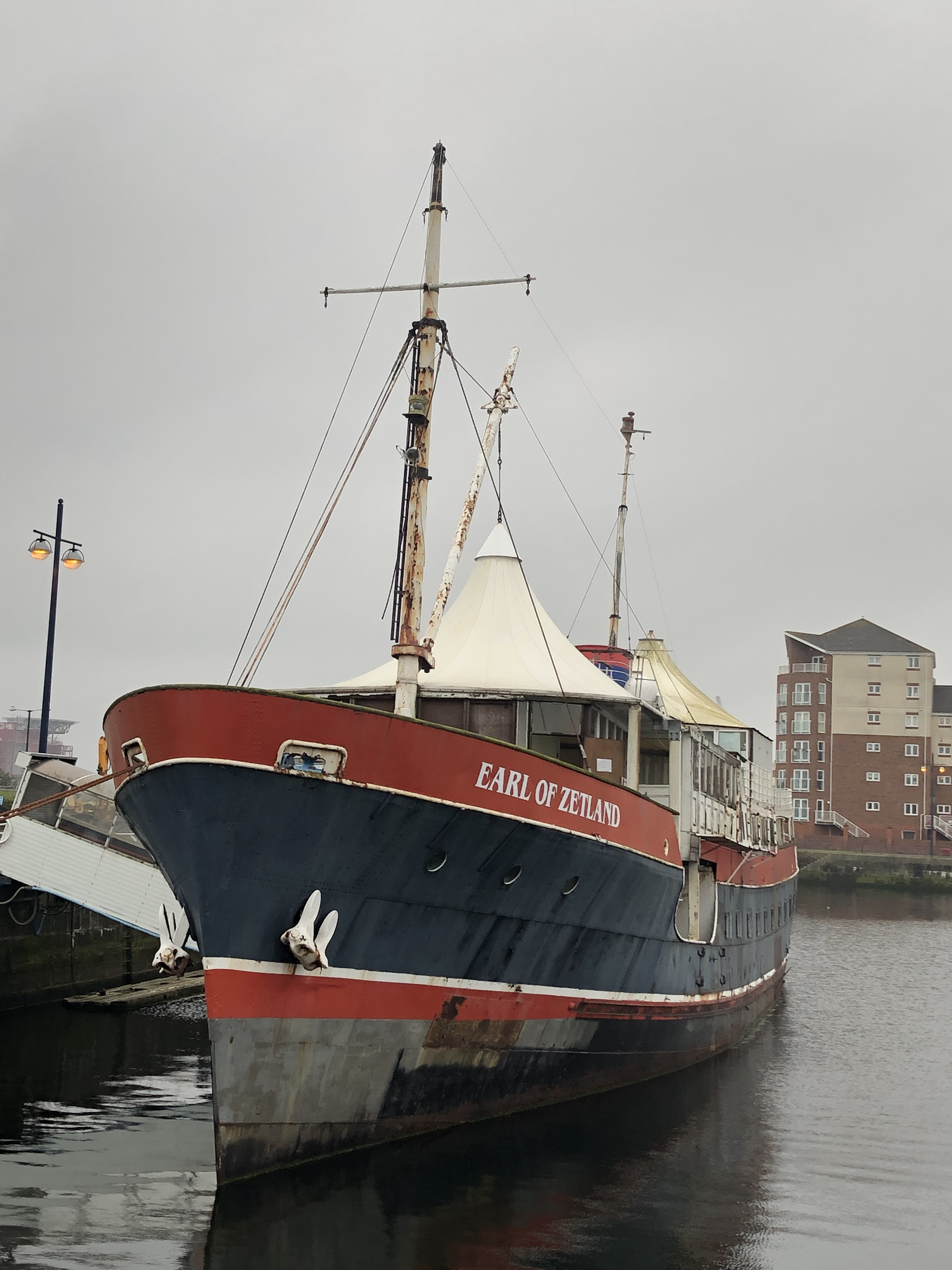 Photograph of the historic ship Earl of Zetland, from the vessel's port bow aspect, in Royal Quays Marina, North Shields, United Kingdom.